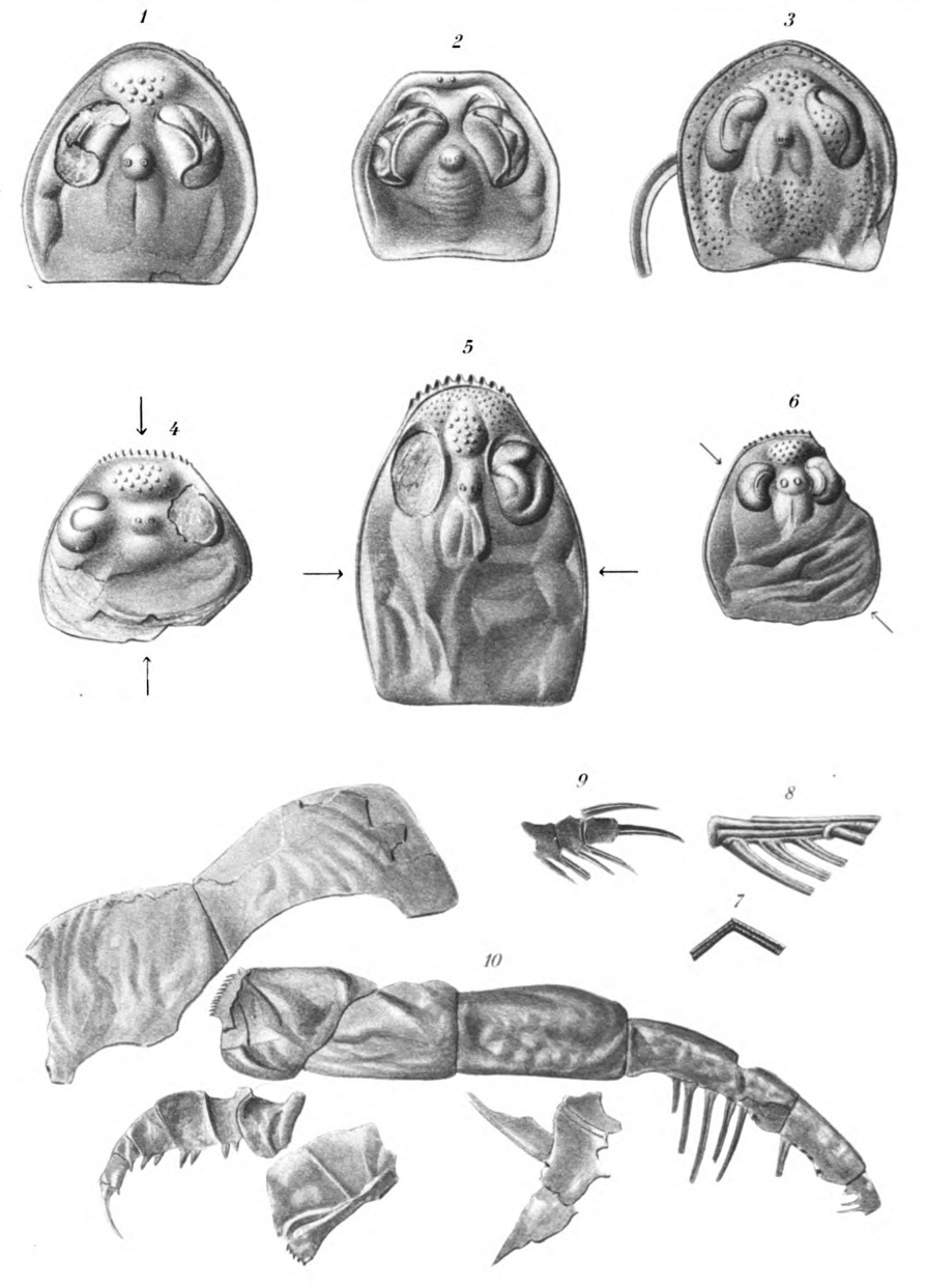 Ctenopterus (Stylonurus) cestrotus 1-7, Stylonurus sp. 8, Mixopterus (Stylonurus) multispinosus 9-10. The Eurypterida of New York. Volume 2. New York State Museum Memoir 14, plate 50